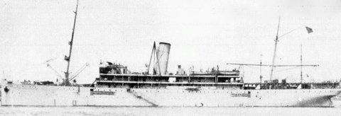 Cruiser Imperator Aleksandr I (Respublikanets).